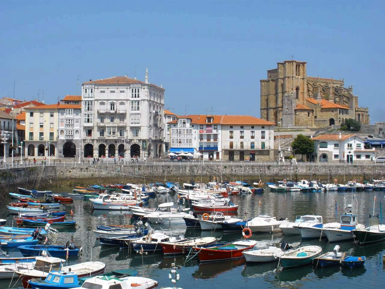 Castro Urdiales (Cantabria)